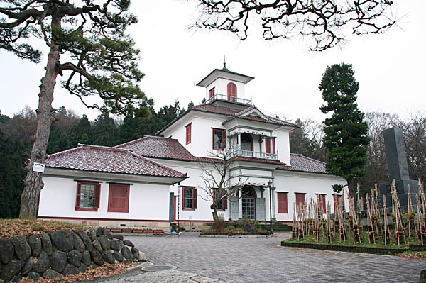 Higashi-Murayama County Former Office (Tendō City, Yamagata Prefecture, Japan.)